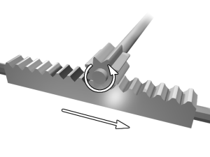 Illustarion of a rack and pinion mechanism, created by Wapcaplet in Blender and touched up in the GIMP.